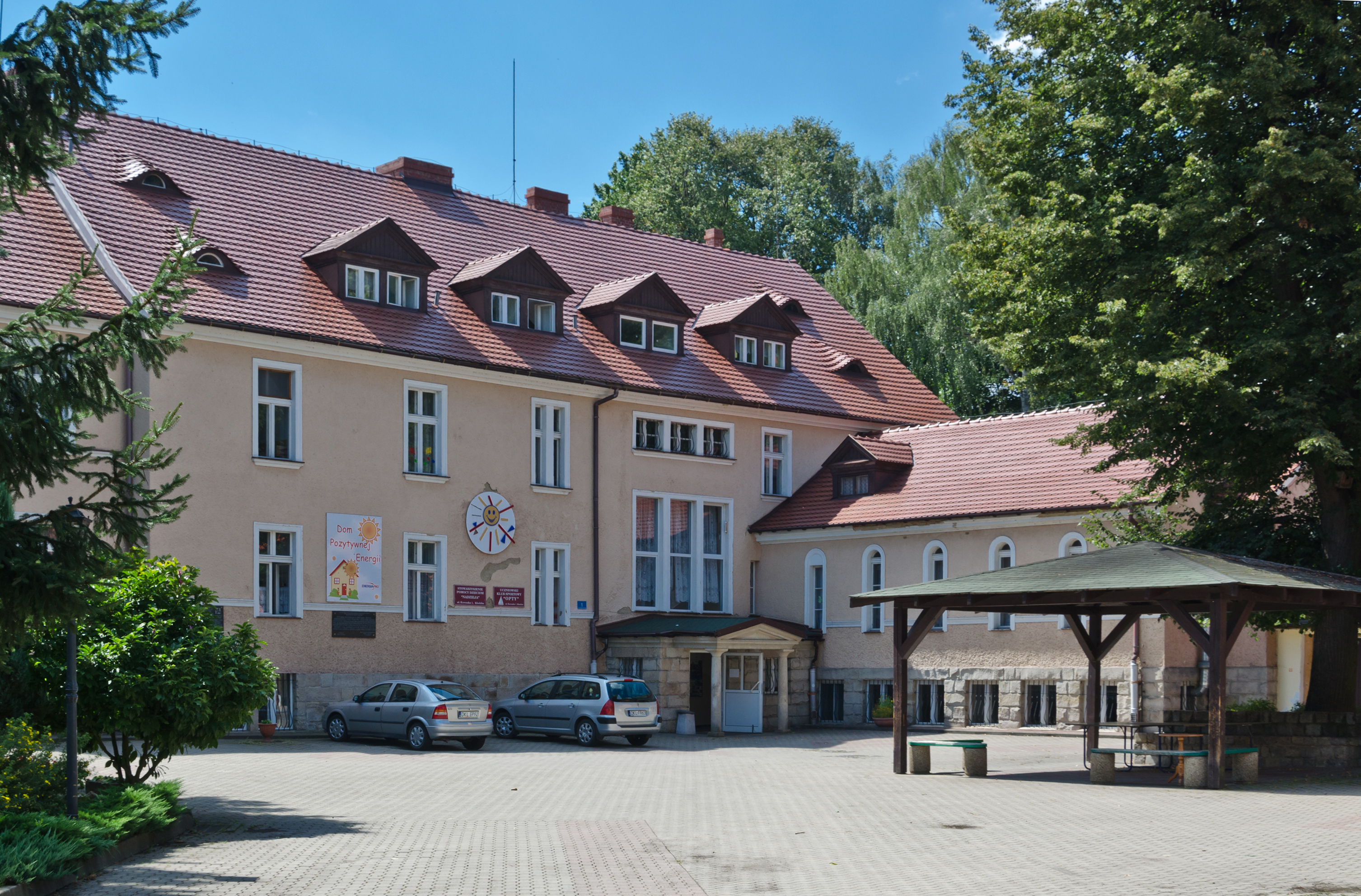 Orphanage at Korczaka Street in Kłodzko